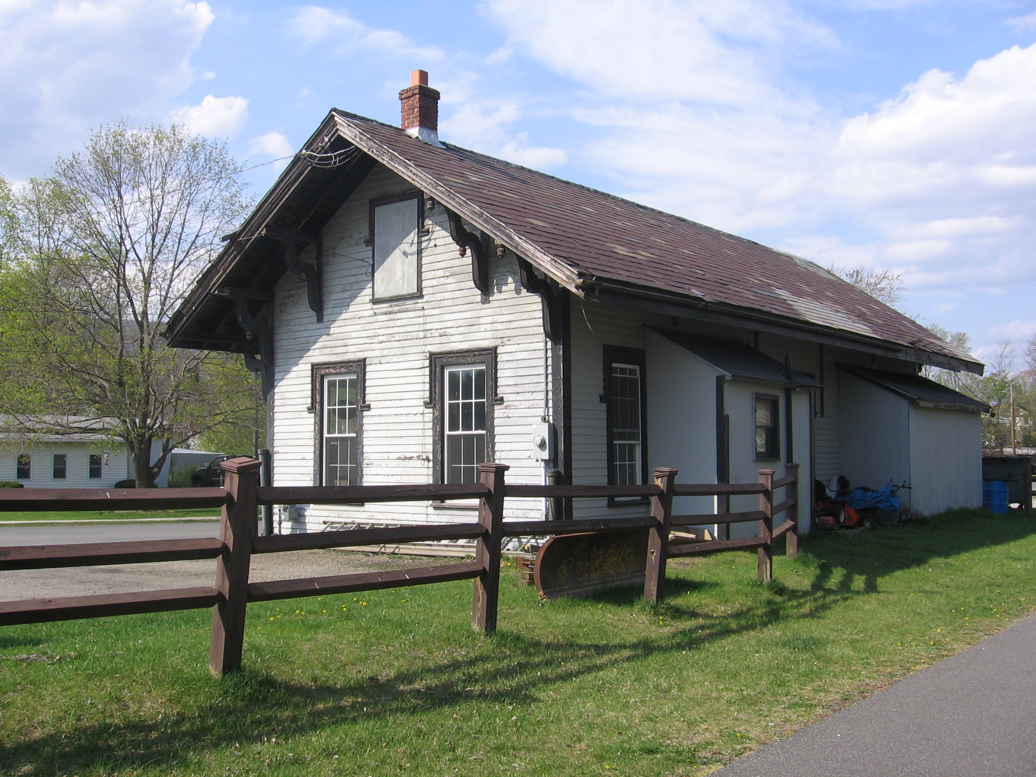 Cheshire station is now Chic's auto repair.